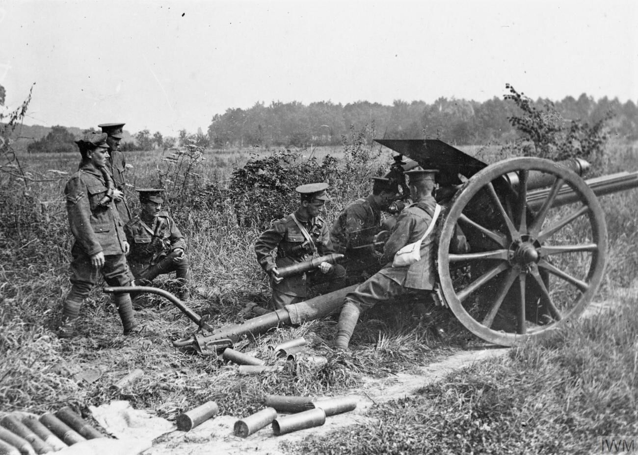 THE BATTLE OF THE SOMME 1 JULY - 18 NOVEMBER 1916 Equipment: British Gunners firing an 18 pounder gun at St Leger aux Boise.